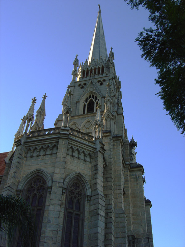 Petrópolis Cathedral, Brazil.